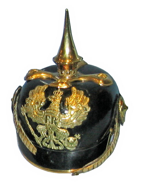 Helmet of prussian dragoon officer (in coll. Mémorial de Verdun)